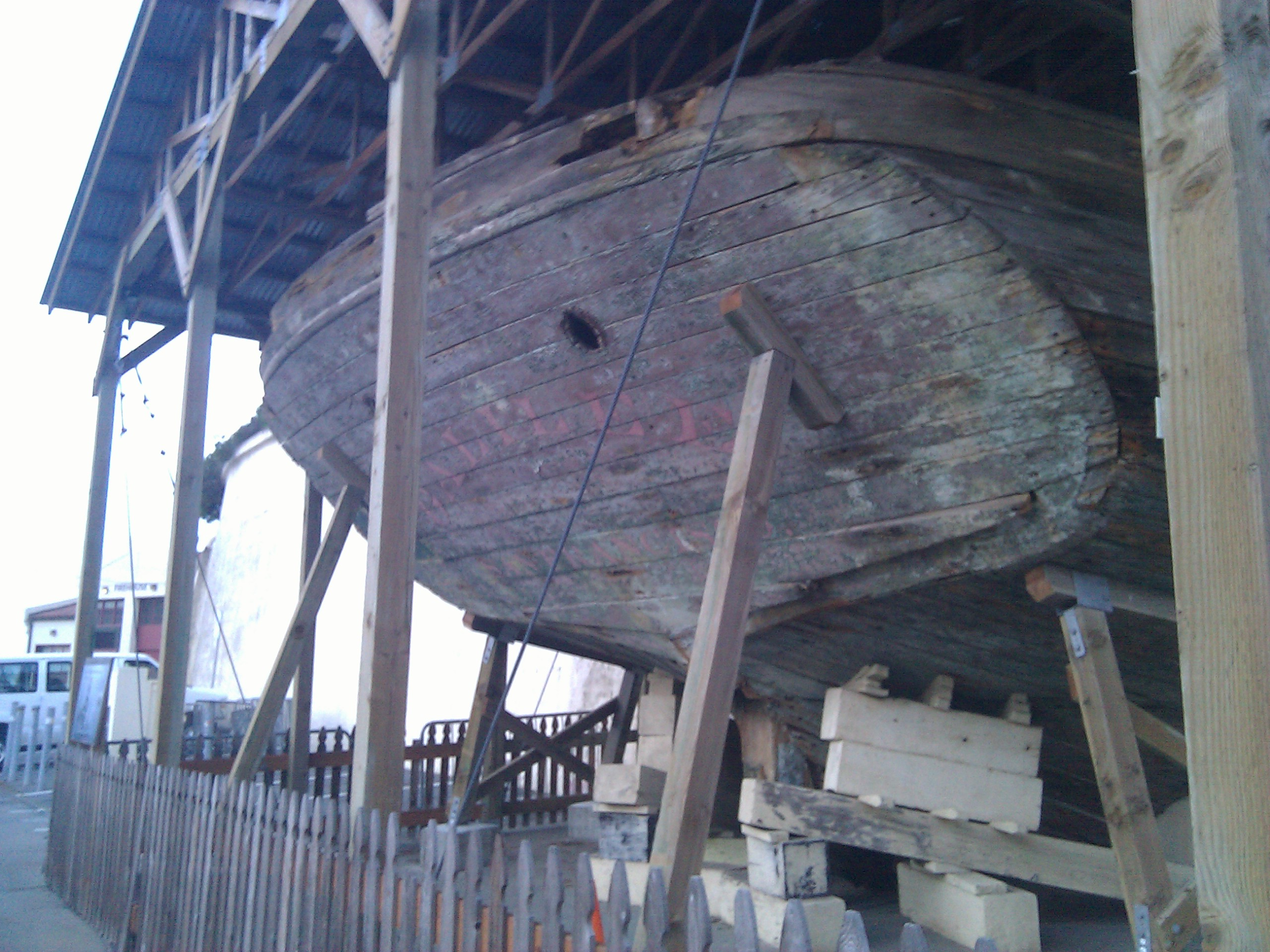 Fort Mason, San Francisco, CA, USA. The preserved stern of the brigantine Galilee, designed by Matthew Turner.